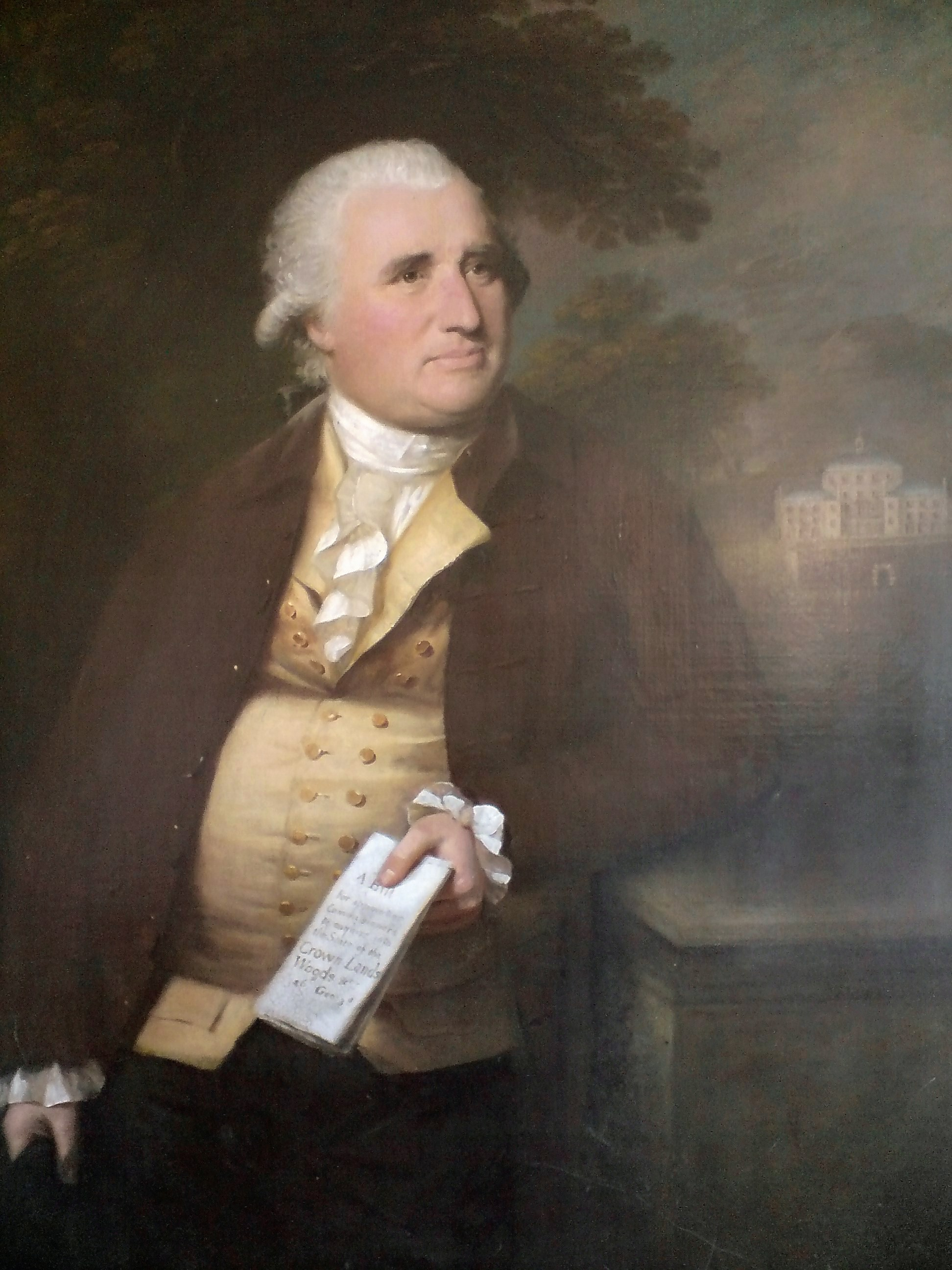 Oil painting of Sir John Call, 1st Baronet with Bodmin Jail in the background. Circa 1779. Artist unknown.